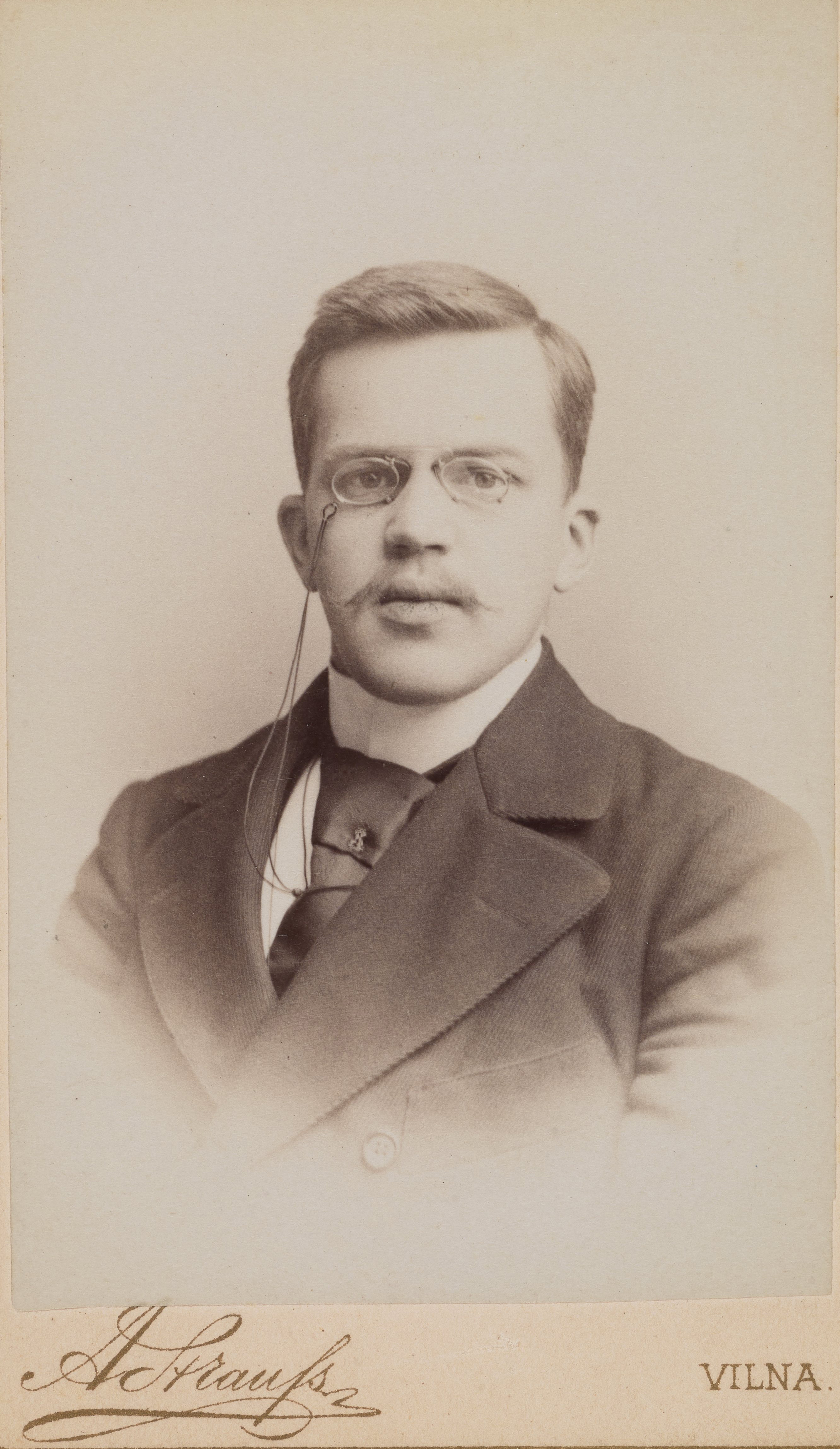 Eugeniusz Mikołaj Romer (3 February 1871 in Lwów (Lviv, Lemberg) – 28 January 1954) was a distinguished Polish geographer, cartographer and geopolitician, whose maps and atlases have been highly valued by experts for more than a century.